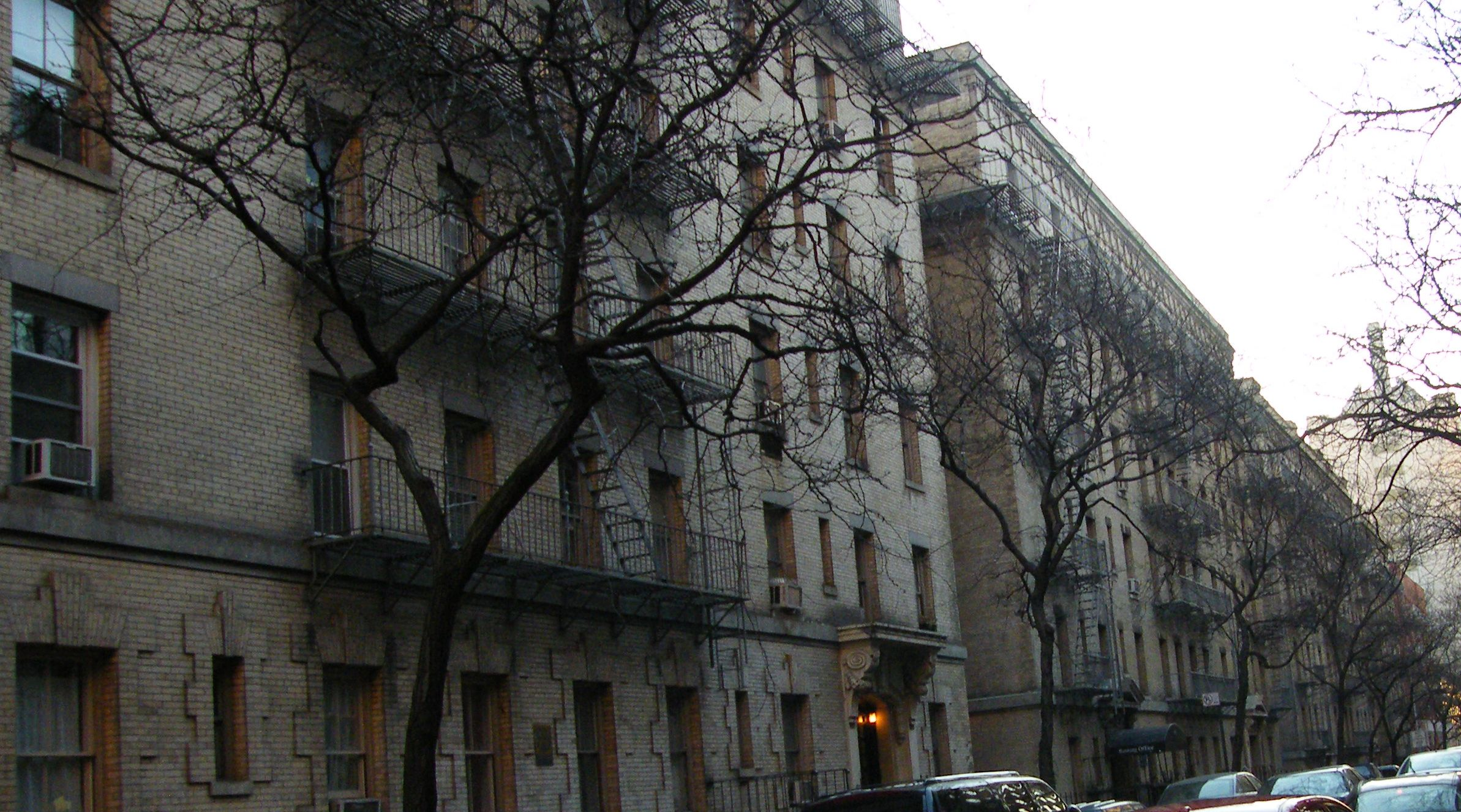 City Suburban Historic District on National Register of Historic Places in New York City